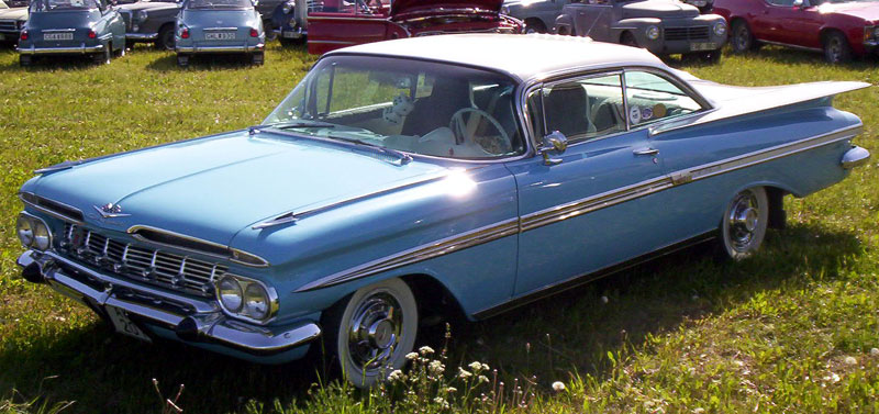 1959 Chevrolet Impala 2-door Hardtop